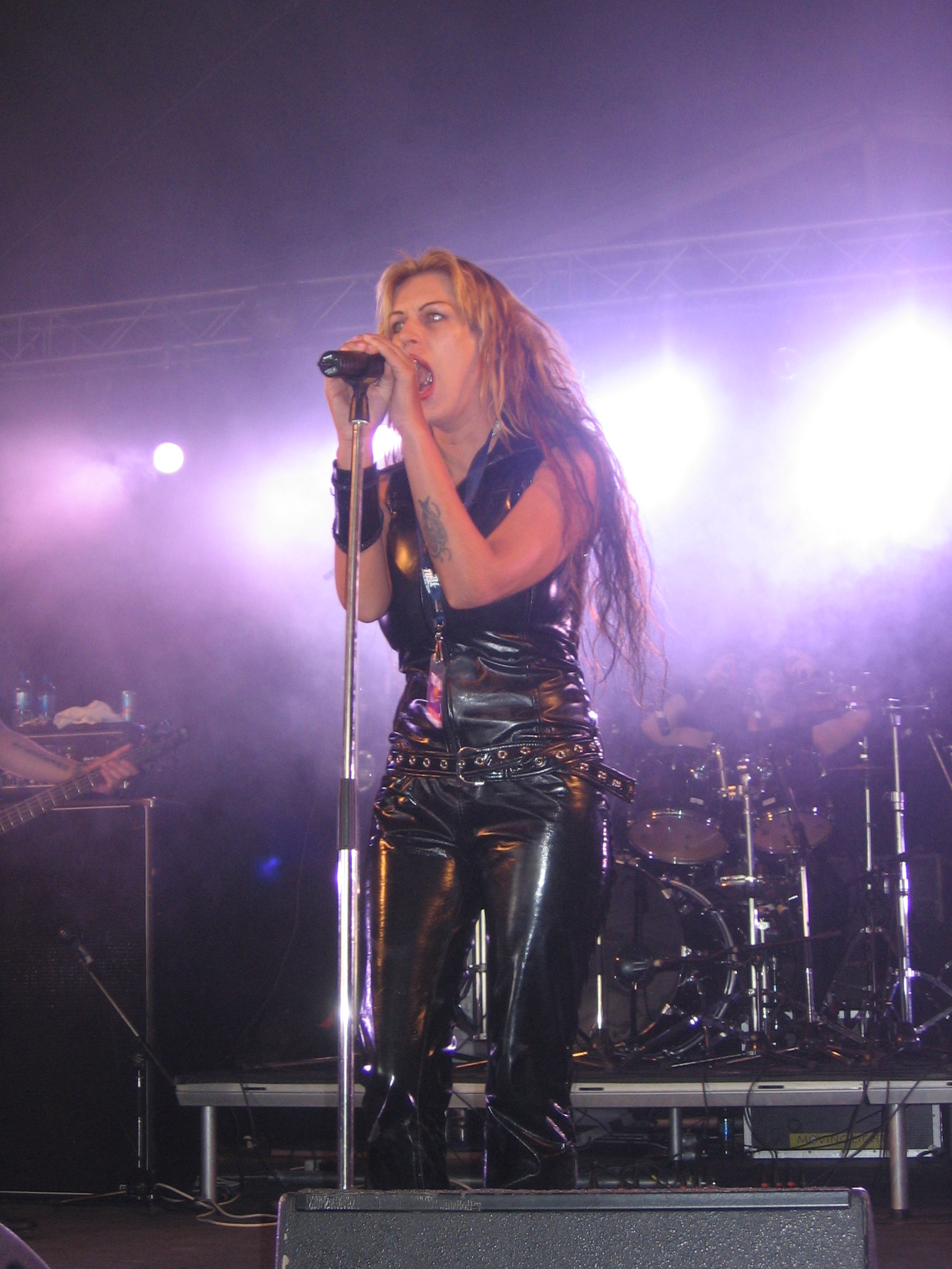 Helena Iren Michaelsen, the singer of Imperia, singing at Tuska Open Air Metal Festival 2007.